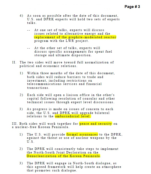 Agreed Framework 1994 Page # 3